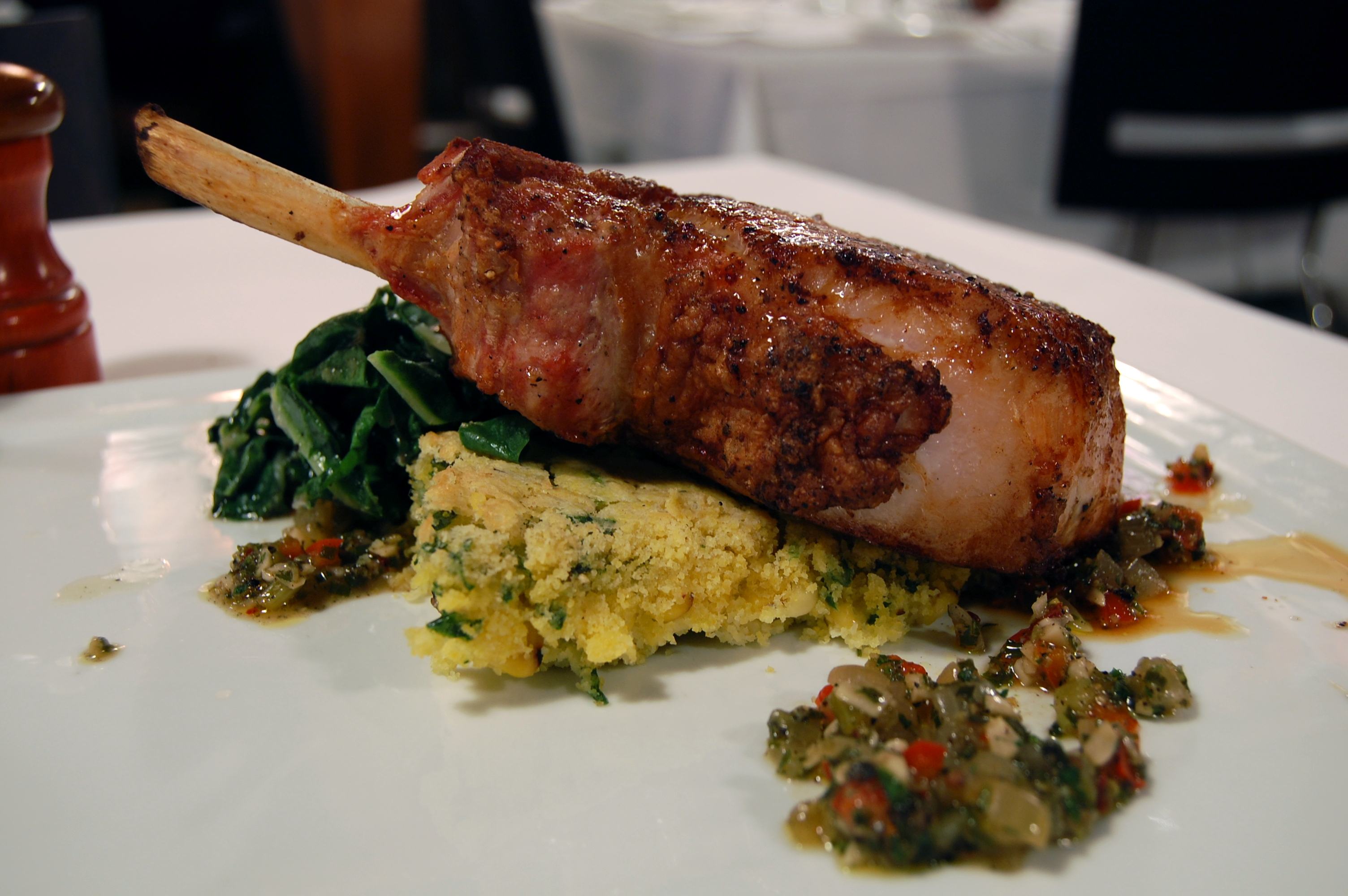 Spoonbread is a sweet, moist cornmeal-based dish prevalent in parts of the Southern United States.